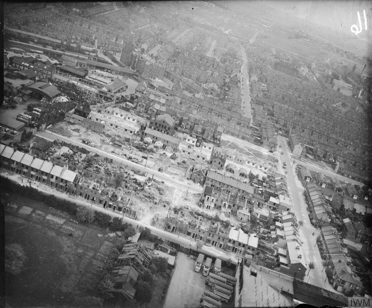 Bomb Damage in London, England, April 1945 Aerial view from the west of the damage resulting from a V2 rocket missile which exploded in the area of Boleyn and Priory Roads, Upton Park, East Ham, London E6, England at 10.30 am on 28 January 1945. Sixteen people were killed, twenty-seven seriously injured and sixty-nine slightly wounded. 5 houses were completely demolished, 16 partly demolished and a further 59 were seriously damaged. Some damaged houses on Priory and Seymour Roads have been re-roofed (foreground and lower right), and utility housing has been erected in Cleves Road on ground cleared after an earlier bombing. A corner of West Ham Football Club's Boleyn Ground can be seen at extreme lower right.